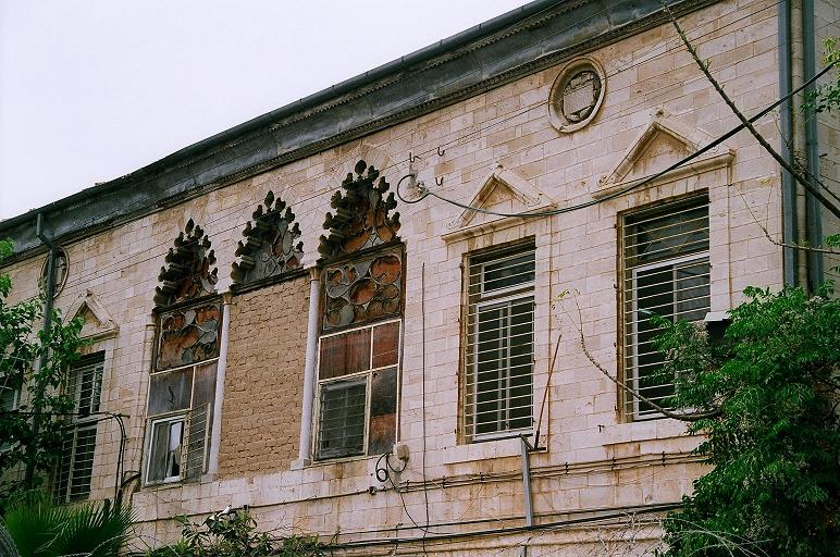 Kasser House, Abu Kabir, Tel Aviv